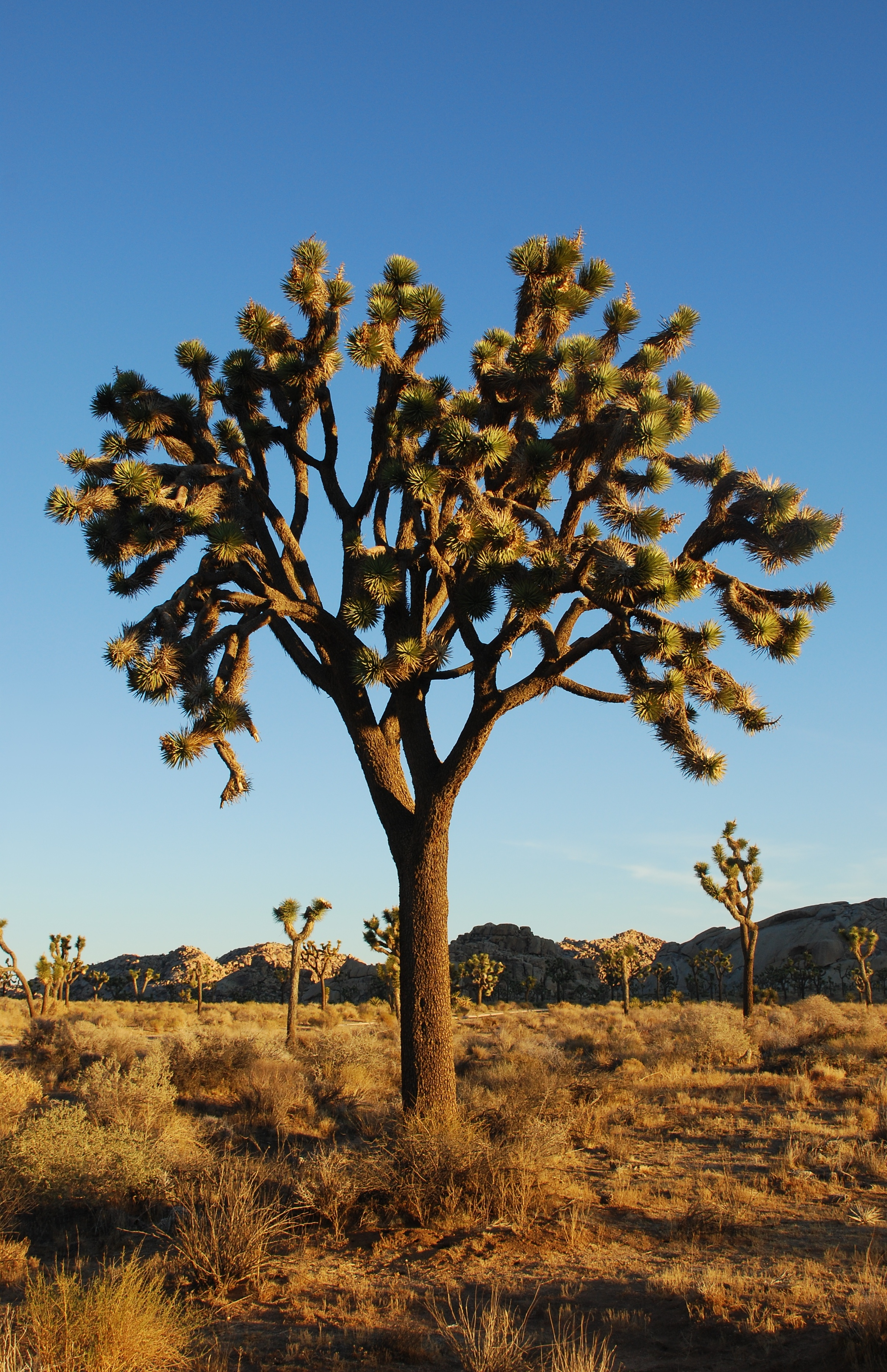 Joshua Trees (Yucca brevifolia) at sunrise in Joshua Tree National Park near Hidden Valley Campground